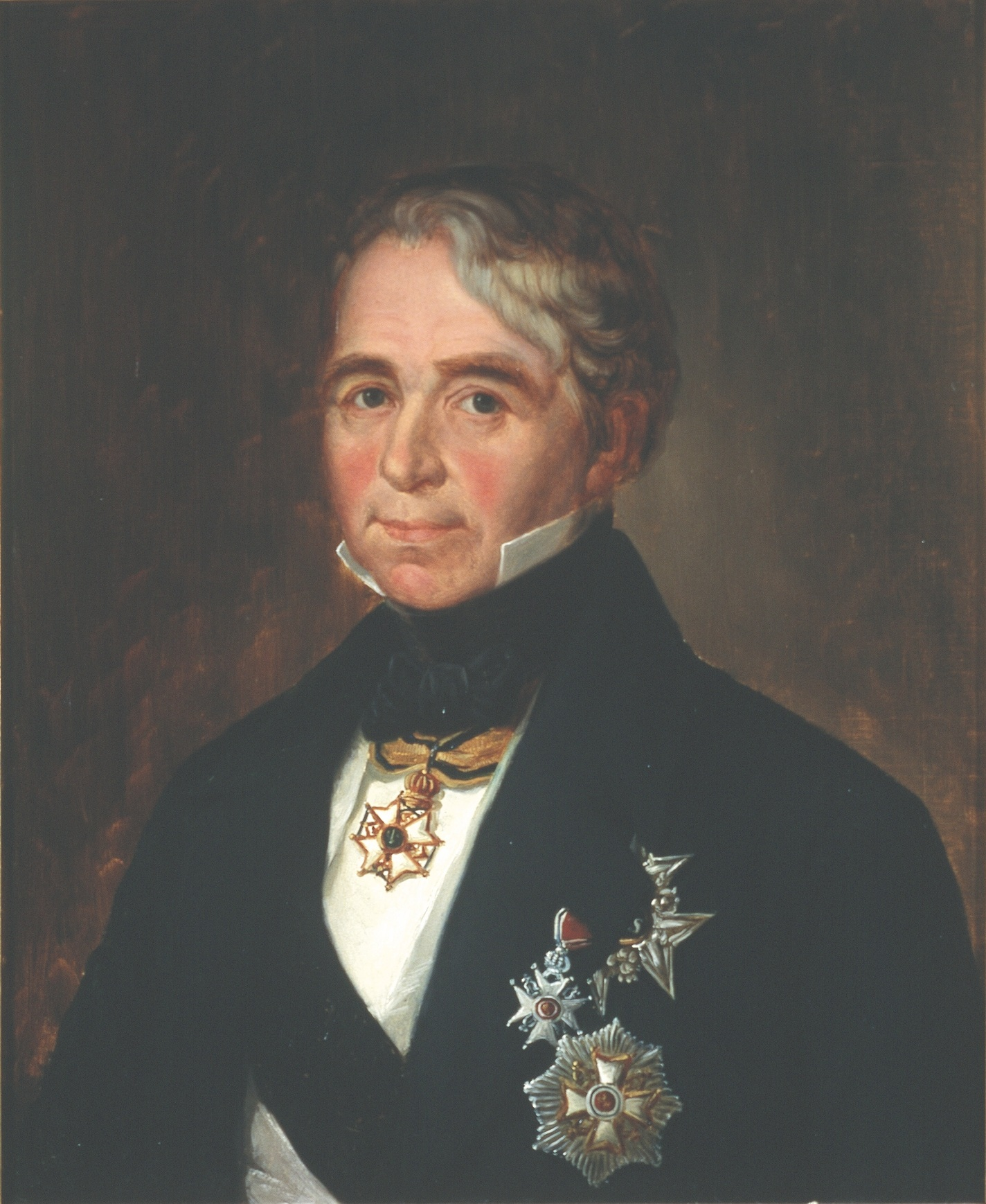 Portrait of Valentin Christian Wilhelm Sibbern (1779-1853)